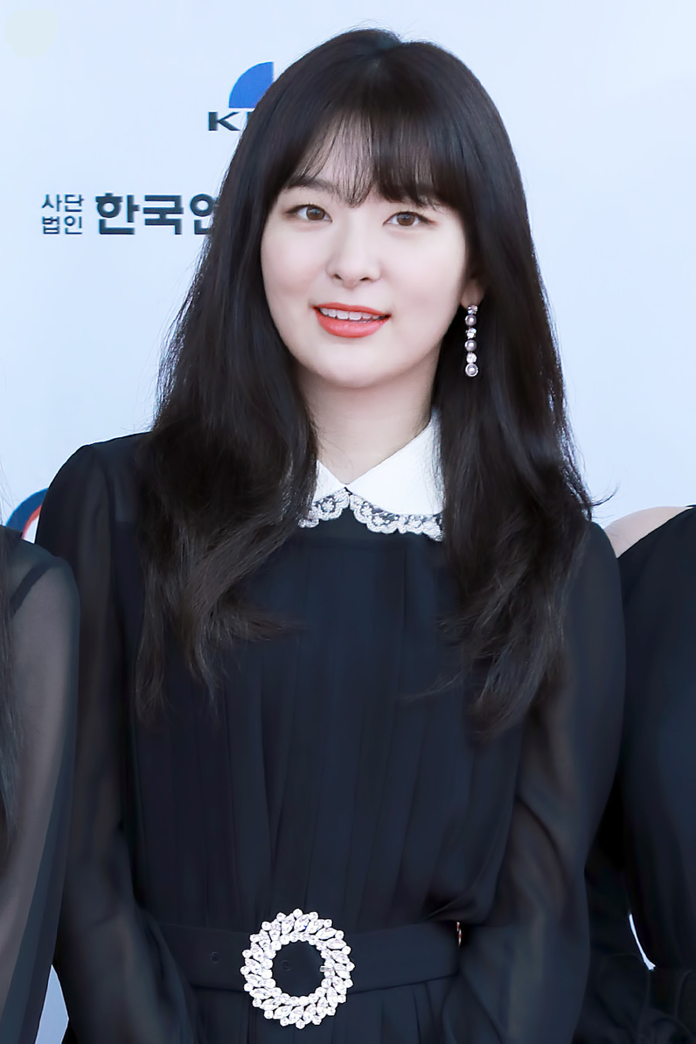 Kang Seul-gi at Dream Concert on May 12, 2018.